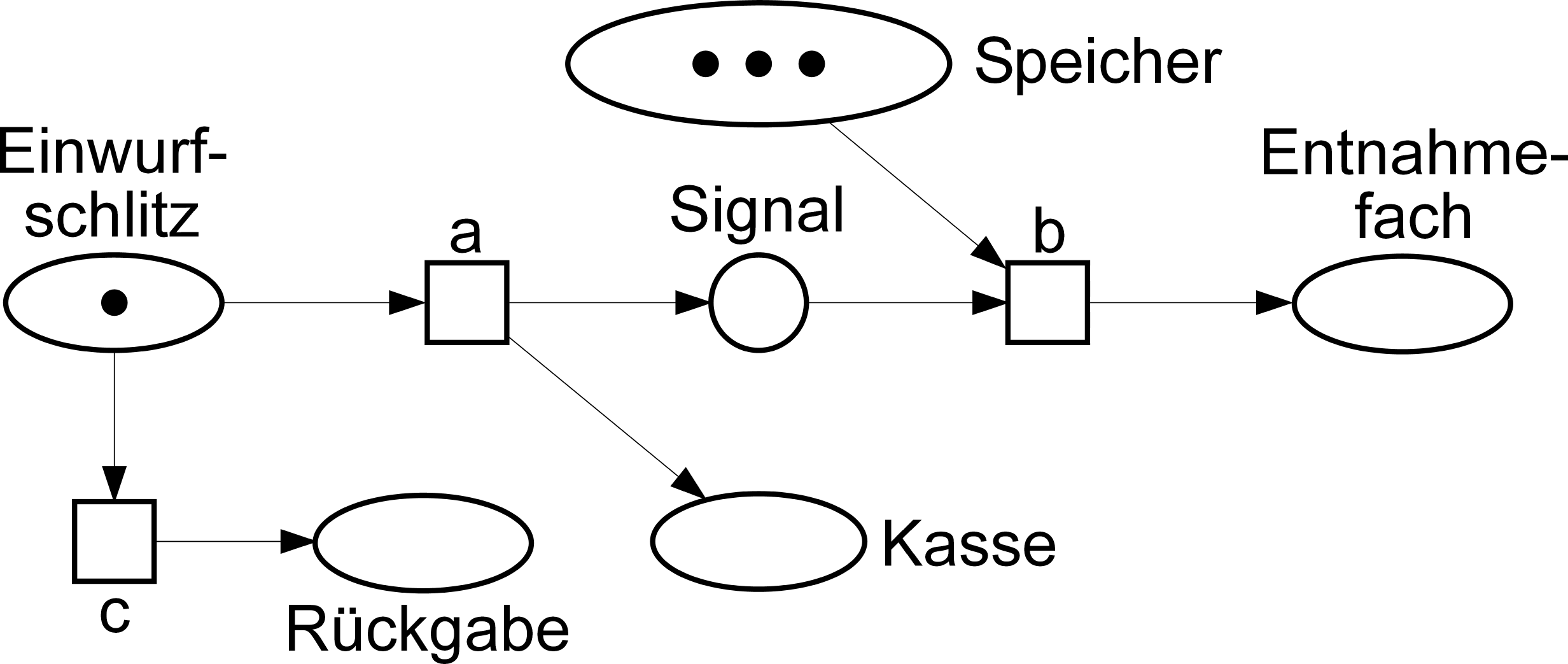 petri net example 4